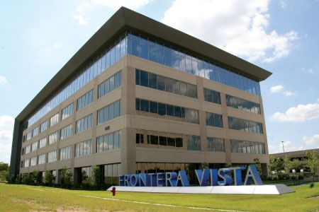 Frontera Vista I and II office buildngs, at La Frontera, Round Rock, TX